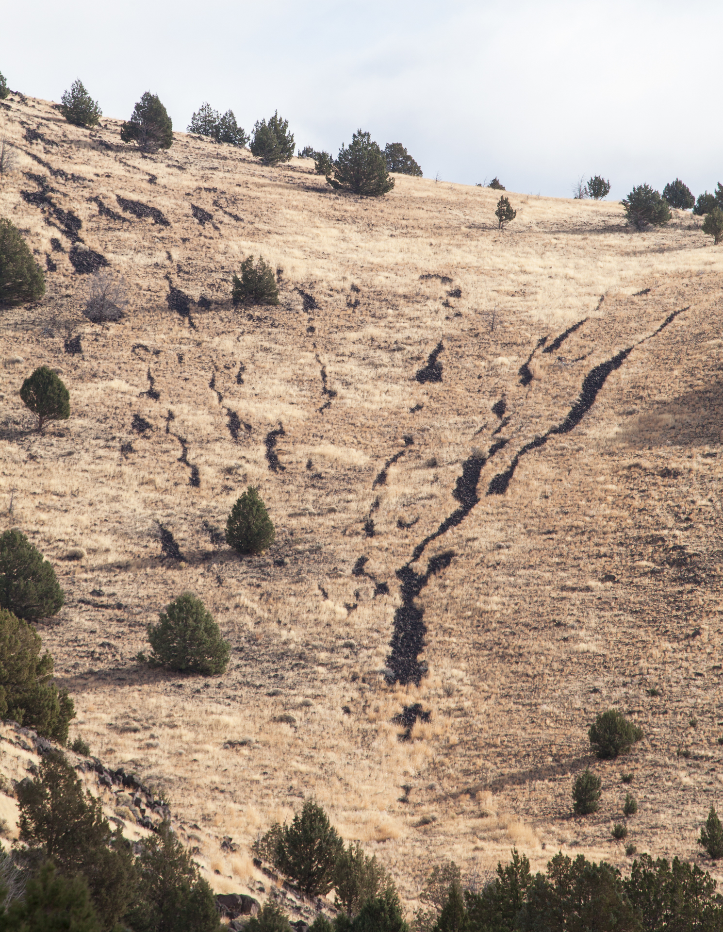 Lava Stringers on Catlow Rim, Oregon, USA